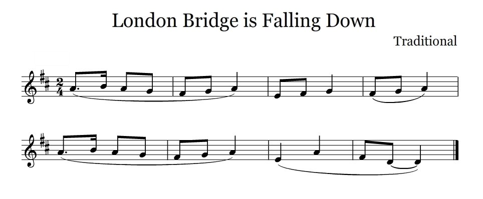 The basic score of London Bridge is Falling Down. The music is not under copyright